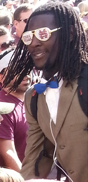 De'Runnya Wilson on November 8, 2014